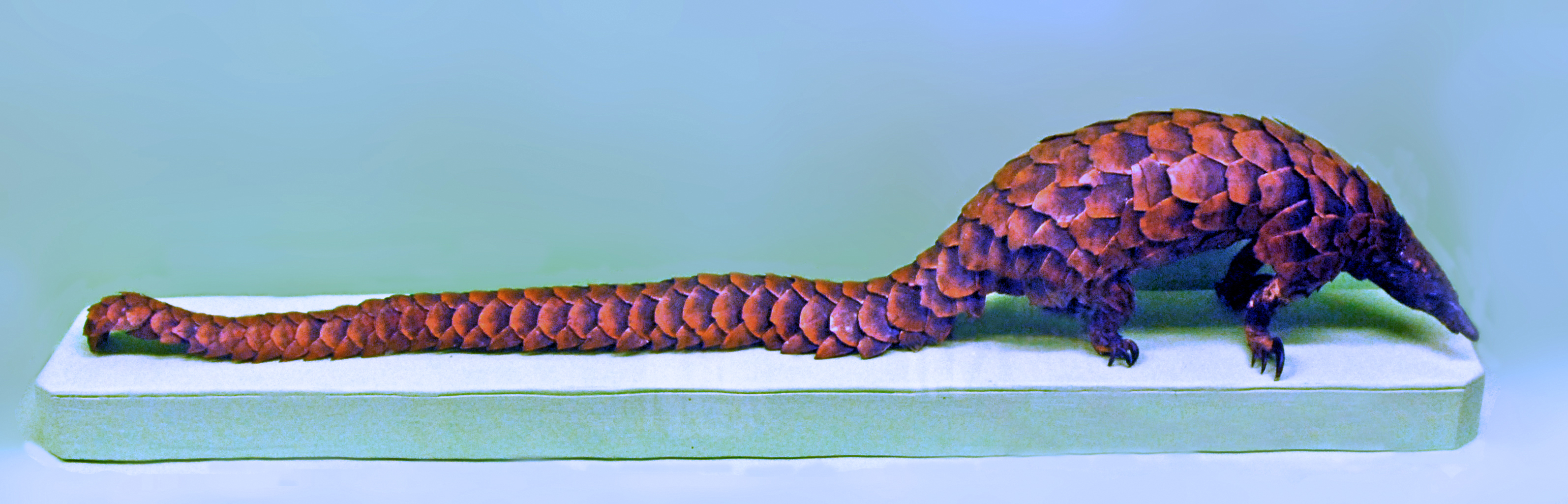 Phataginus tetradactyla. Mounted specimen